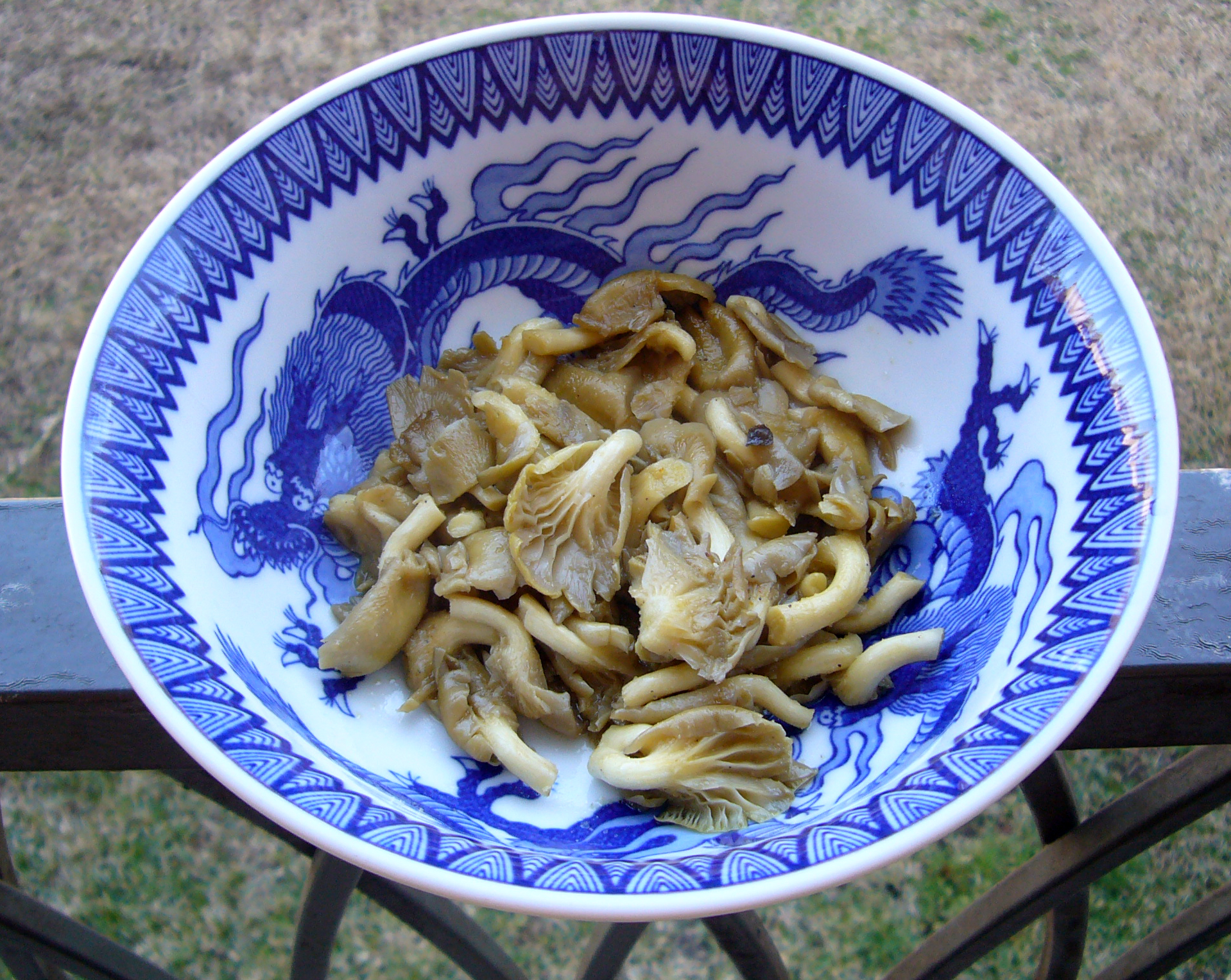 Yellow oyster mushroom (Pleurotus citrinopileatus)